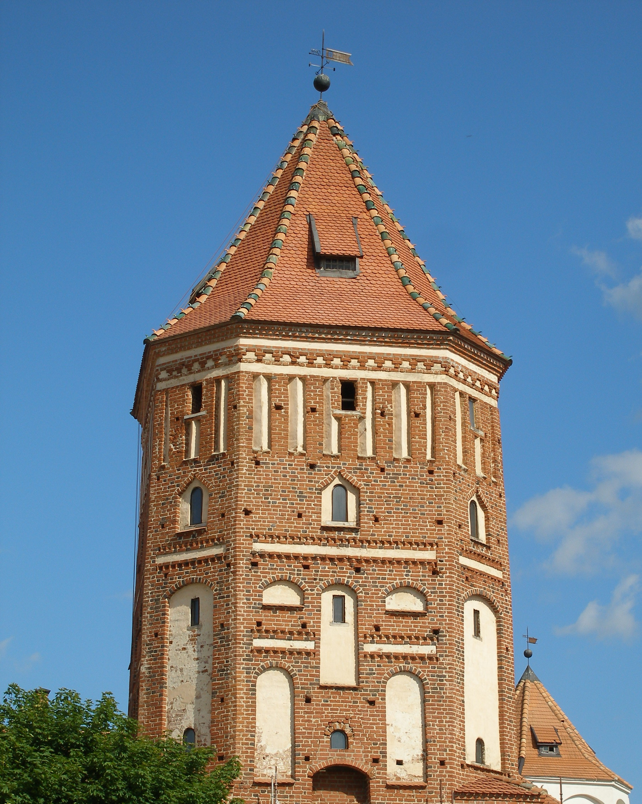 Central tower of Mir Castle in Mir, Belarus.